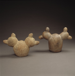 Moche Cactus. 200 B.C.